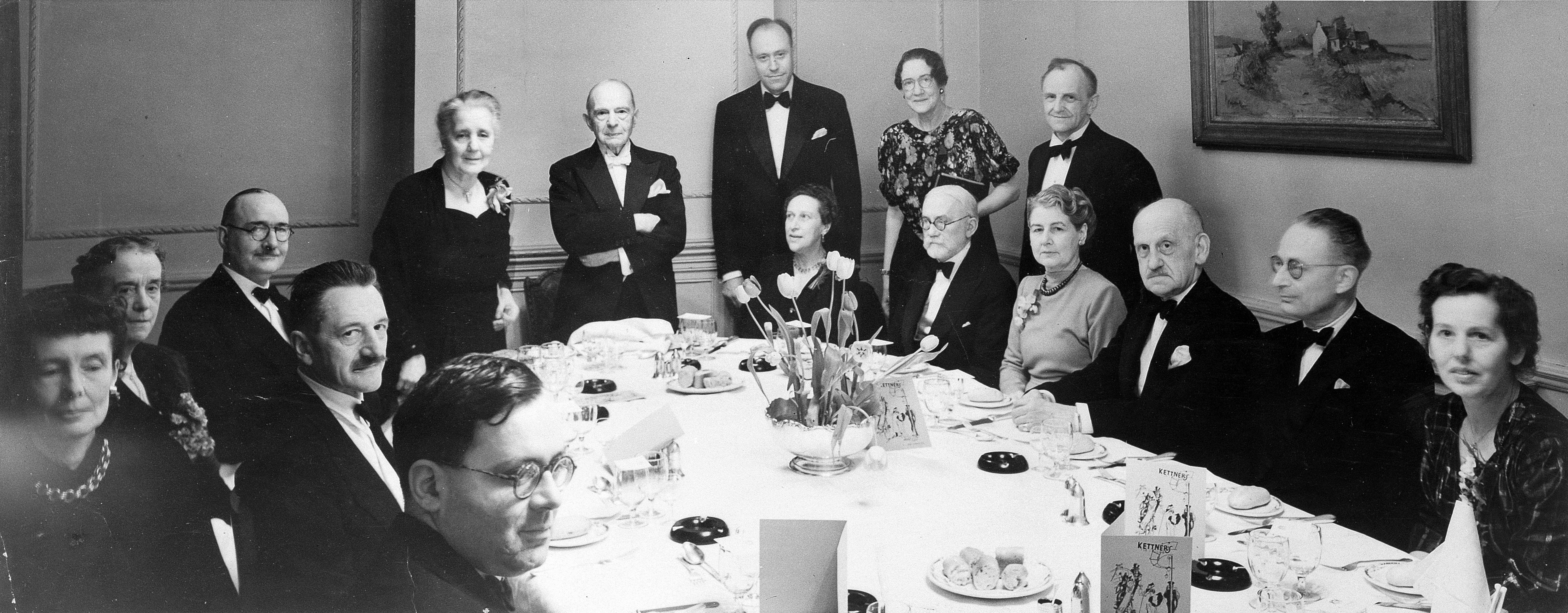 A dinner to celebrate Melanie Klein's 70th birthday, at Kettner's, London. W.1, 1952. Clockwise from left to foreground: Eric {Klein?}, Mr. Money-Kyrle, (behind them) Marion Milner, Sylvia Payne (standing), Melanie Klein, Dr. Jones, Dr. Resenfeld, Mrs. Riviere, Dr. Winnicott (sitting), Dr. Heimann, James Strachey, Gwen Evans, Cyril Wilson, Dr. Balint, Judy {?} Archives & Manuscripts Keywords: jones; klein; milnor; money-kyrle; payne; resenfeld; riviere; winnicott